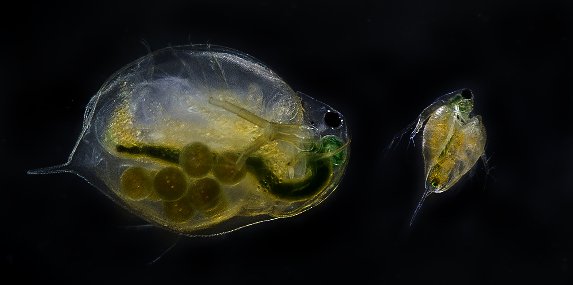 Daphnia magna is a species of Daphnia (a cladoceran freshwater water flea) Vannlopper Photo: Per Harald Olsen/NTNU